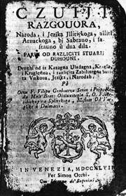 Title page of Cvit razgovora naroda i jezika iliričkoga aliti rvackoga by Croatian writer Filip Grabovac